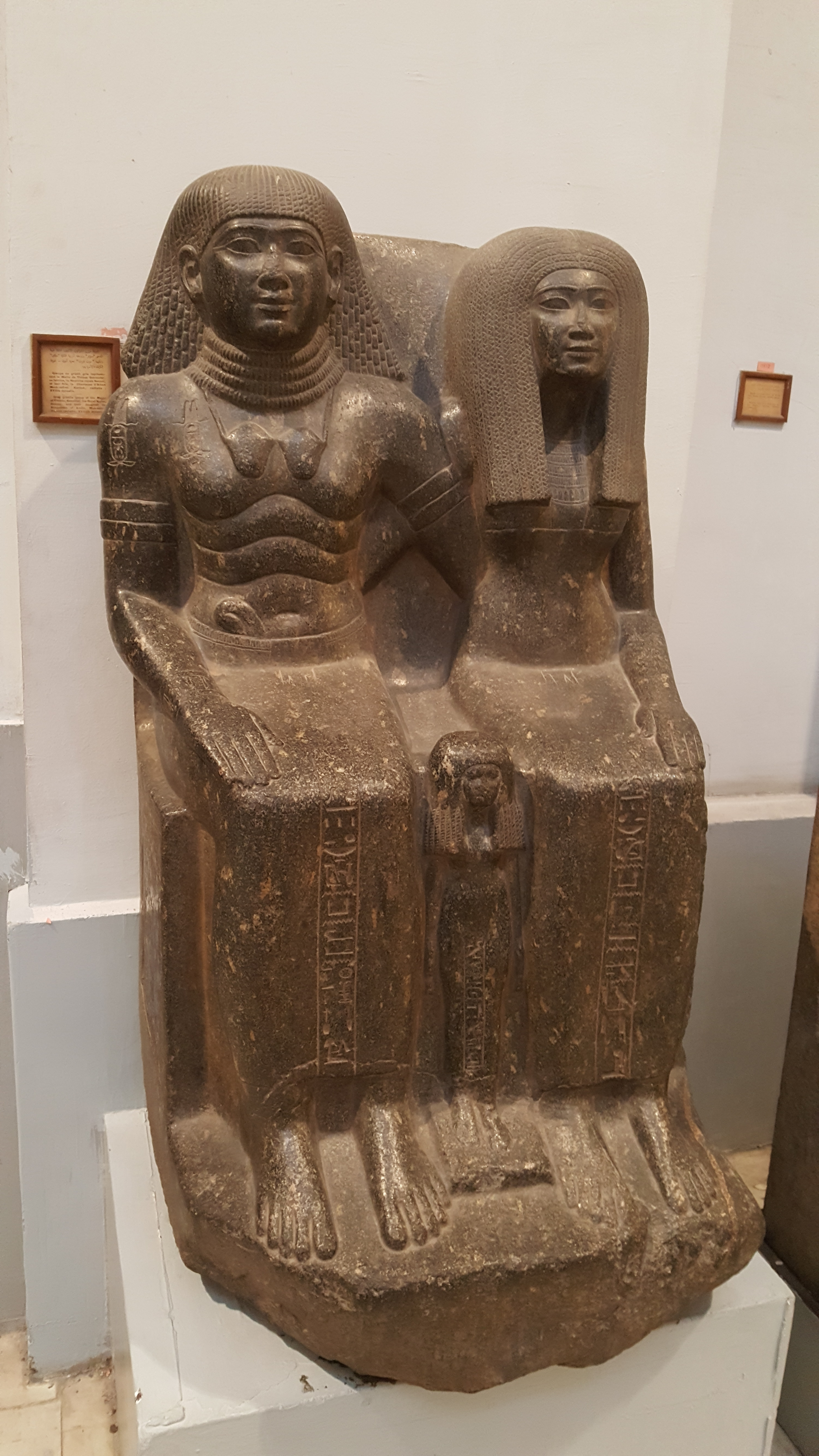 Statues of Sennefer and Senay, 18th dynasty, from Karnak Cachette. Sennefer was mayor of Thebes during the reign of Amenhotep II. His tomb at Thebes is named TT96. Statues in Cairo, Egyptian Museum, main floor, room 12, JE 36574, CG 42126